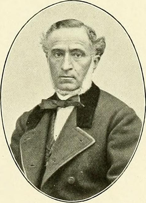 Portrait of the Spanish botanist Mariano de la Paz Graells (1809-1898)